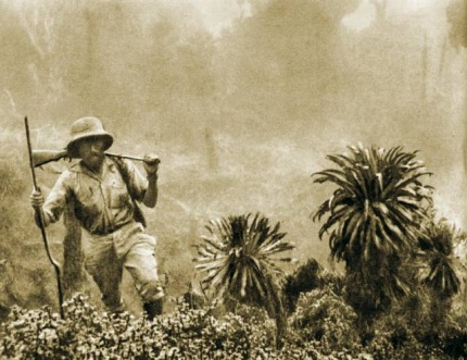 Kazimierz Nowak and Dendrosenecio adnivalis — in the Rwenzori Mountains in Africa. The photo probably taken by Kazimierz Nowak (1897-1937, the author is on the photo; taken probably by a self-timer) during his trip through Africa - a Polish traveller, correspondent and photographer. Probably the first man in the world who crossed Africa alone from the North to the South and from the South to the North (from 1931 to 1936; on foot, by bicycle and canoe).